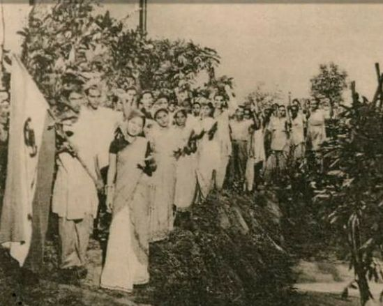 A scene of 1950 Assamese film 'Biplobi'